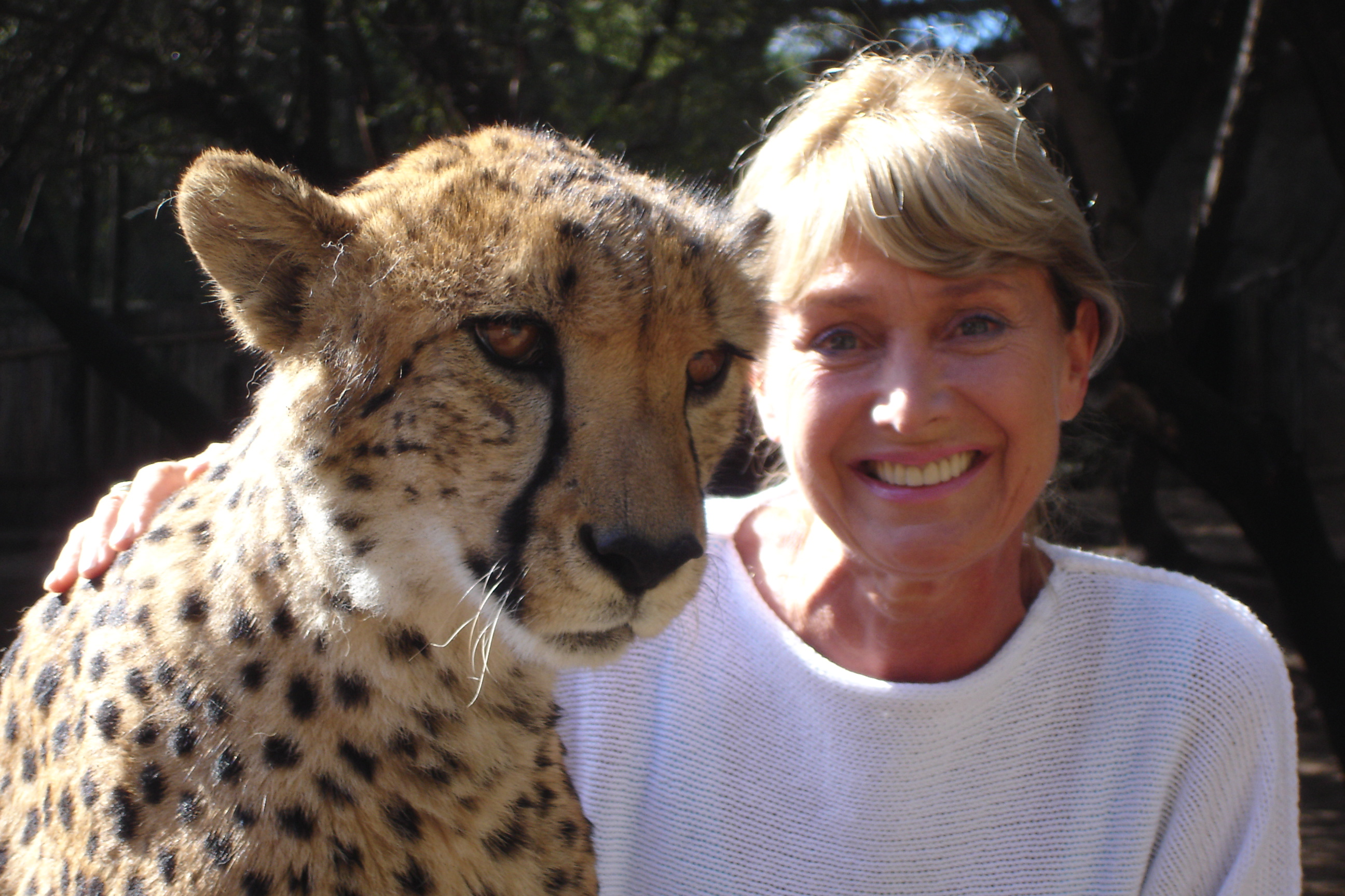 Picture of Jan Leeming with Caine - three year old Cheetah - at Oudtshoorn, South Africa.